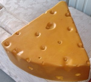 Cheesehead Taken by Wonder_al